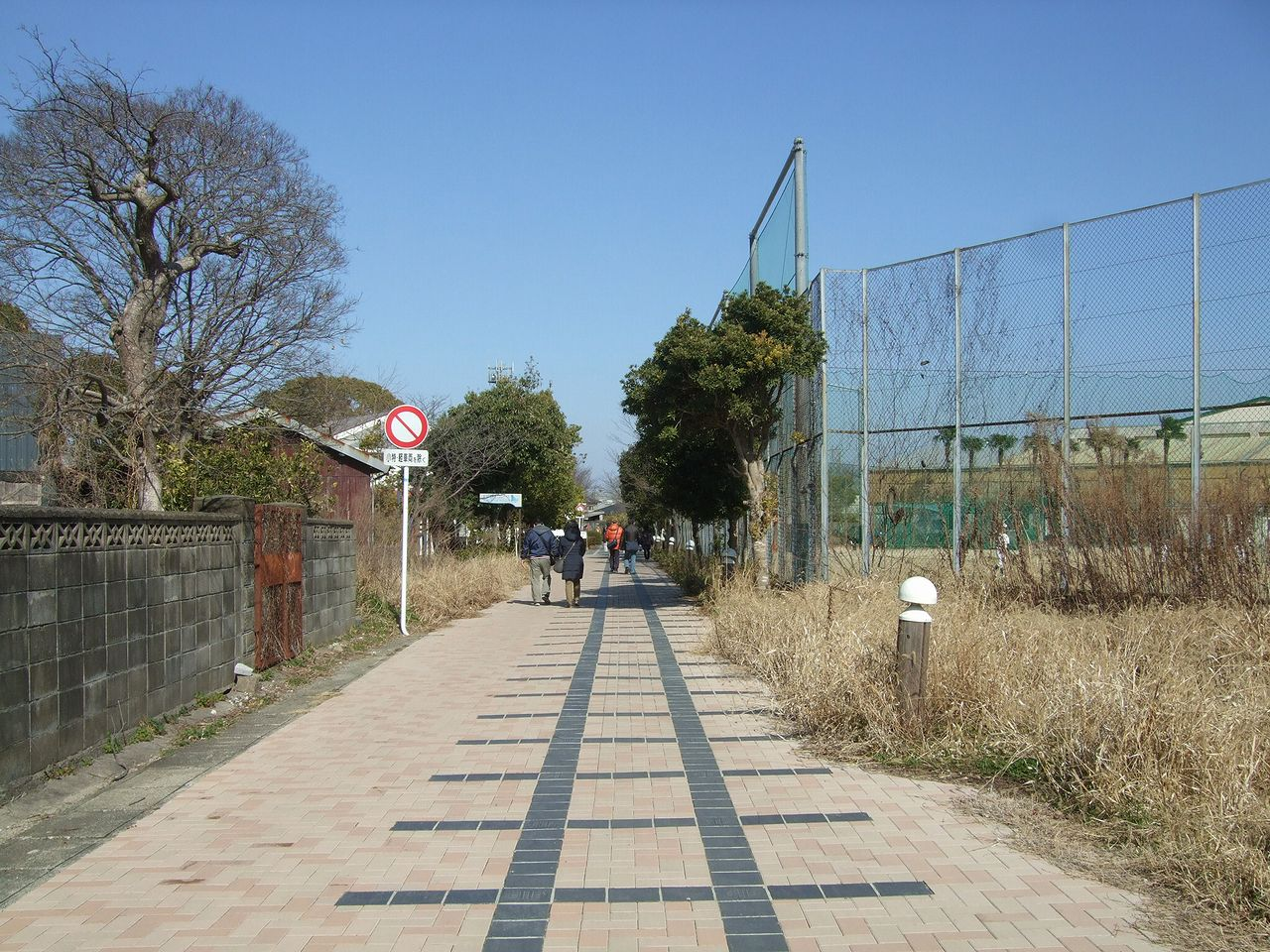 “Pop-po No Train Promenade”, the site of Nishitetsu Okawa Line, Jojima area, Kurume City, Fukuoka, Japan.